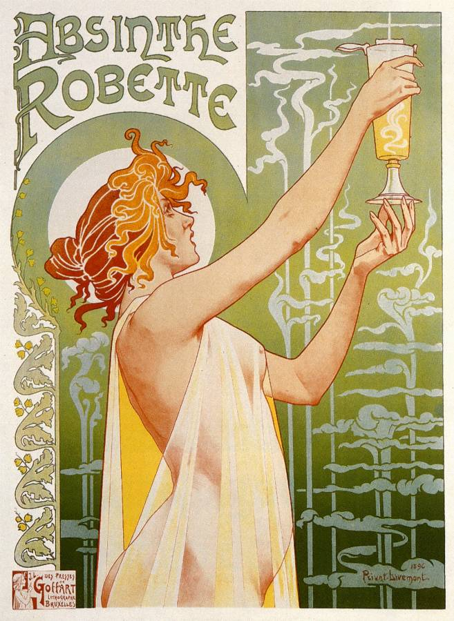 Advertisement for Absinthe Robette